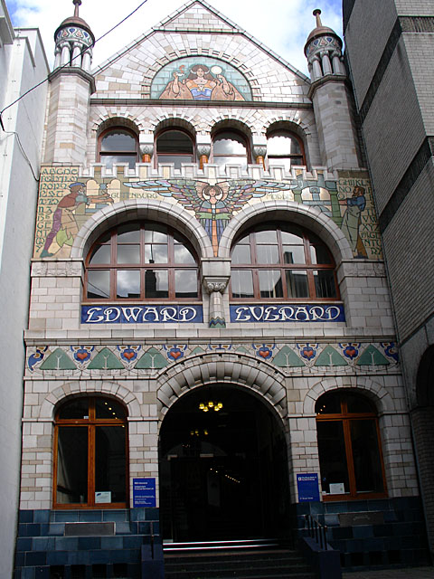 Edward Everard Printing Works